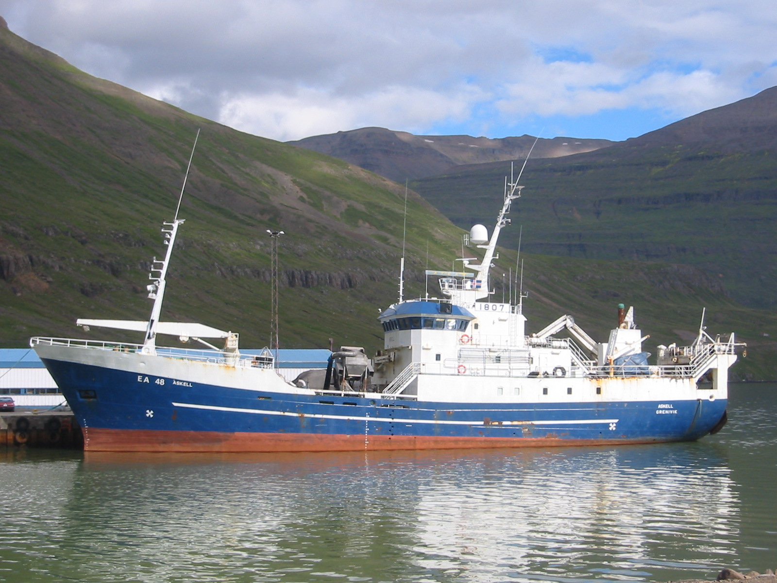 The Icelandic trawler Áskell EA 48 (now the Birtingur NK) at Seyðisfjörður. As a fishing nation, Iceland is vulnerable to depletion of the world's fish stocks.